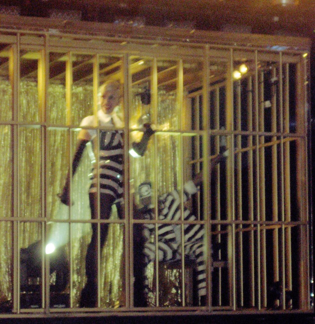 Gwen Stefani performing "The Sweet Escape" at the Tweeter Center for the Performing Arts in Mansfield, Massachusetts, United Statesgwen